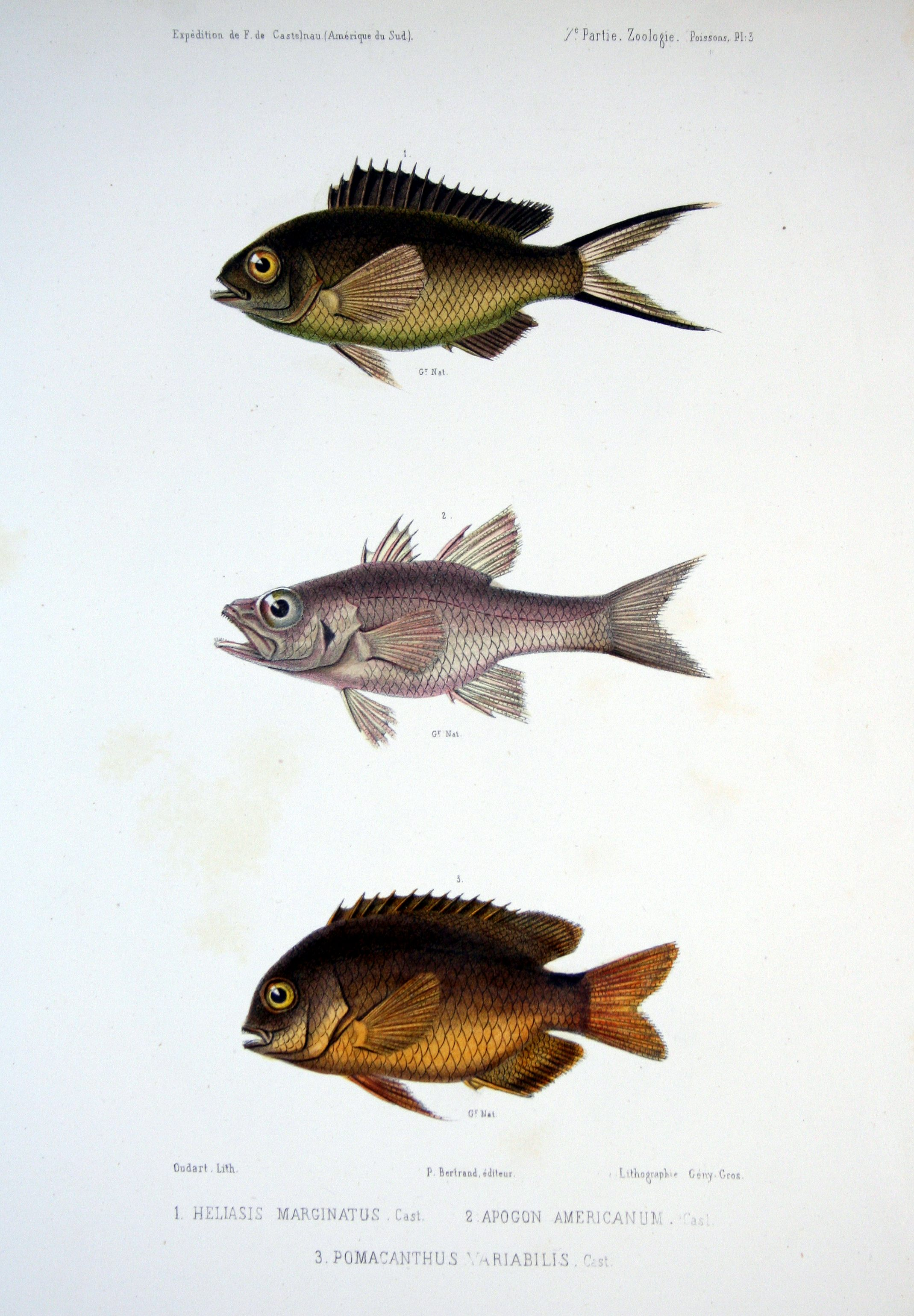 From top to bottom: Heliasis marginatus = Chromis multilineata Apogon americanum = Apogon americanus Pomacanthus variabilis = Pomacentrus variabilis Syn. Stegastes variabilis